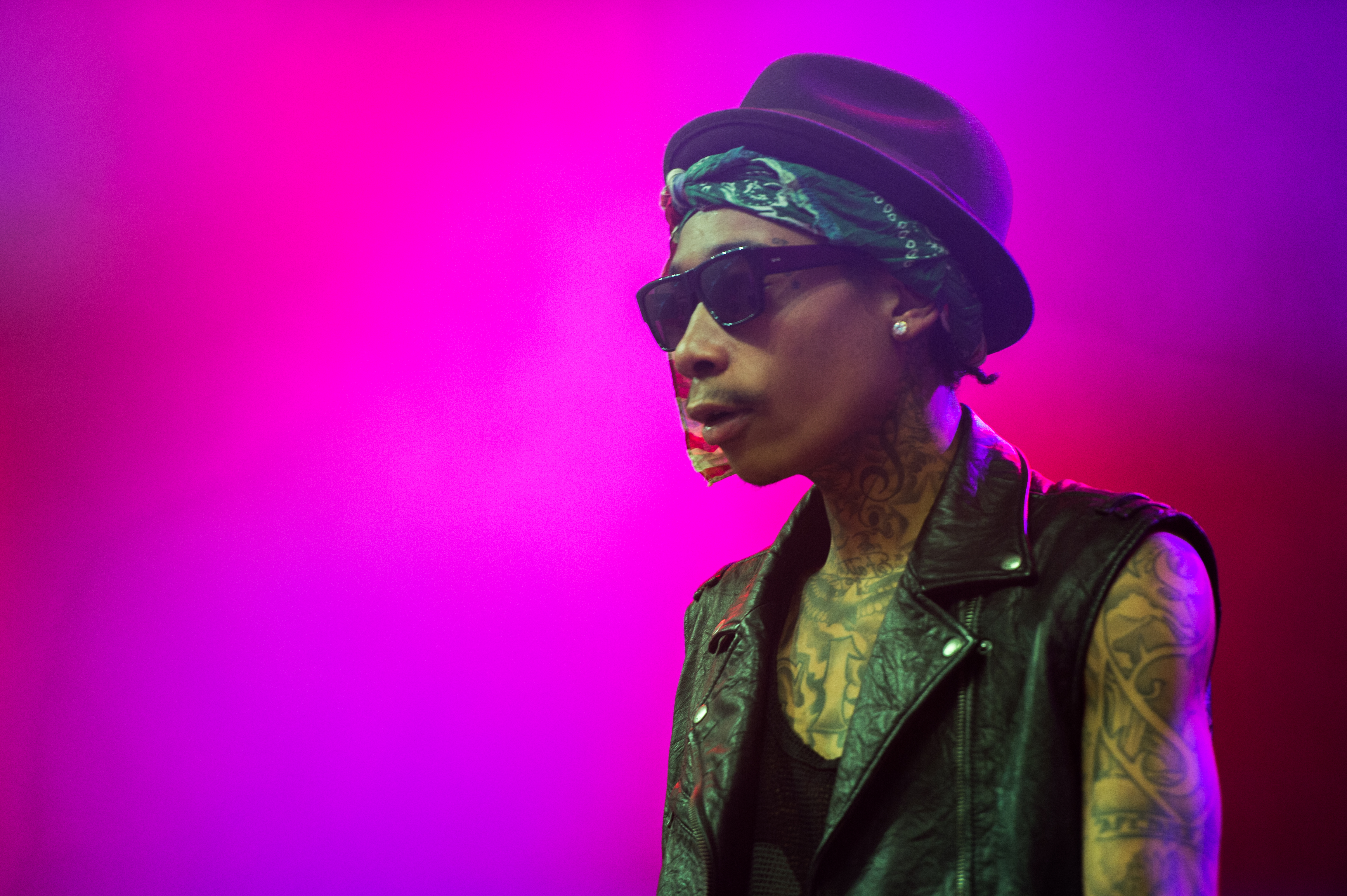 Wiz Khalifa performing on Arena scene, Roskilde Festival 2012 - Denmark. Photo by Bill Ebbesen.